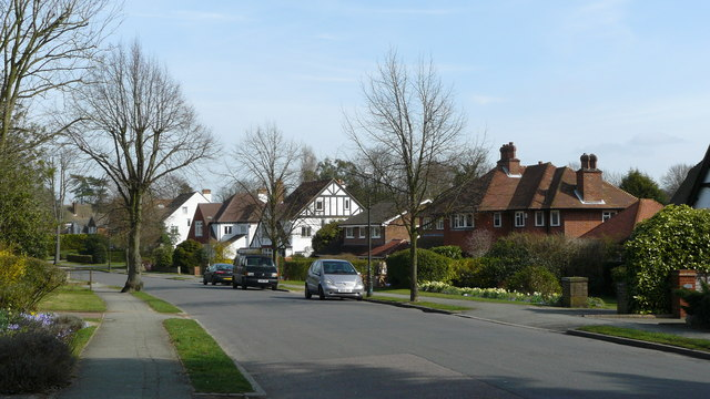 Street Scene, Peaks Hill, Woodcote A quiet residential road, much loved by Driving Instructors.